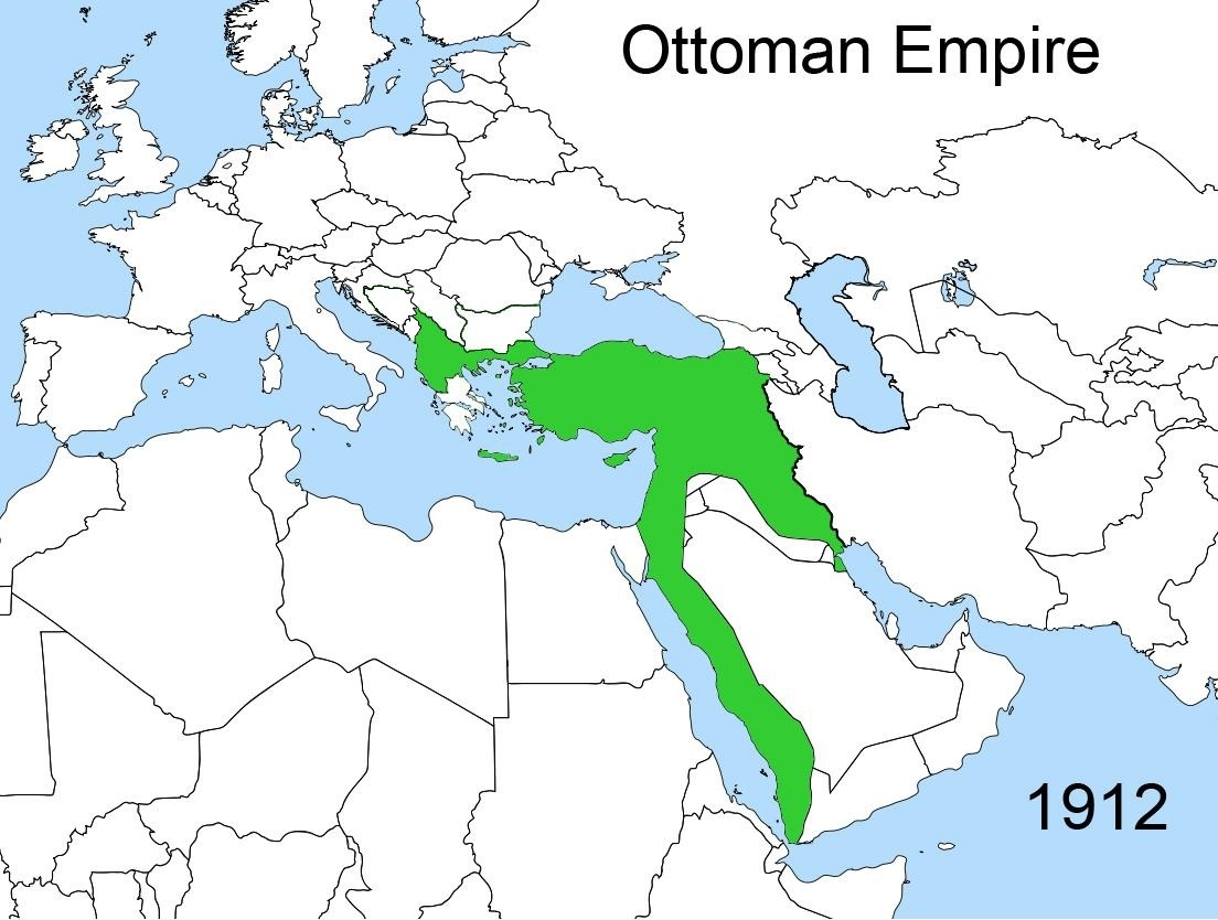 Corrected version of Image:Territorial changes of the Ottoman Empire 1912.jpg